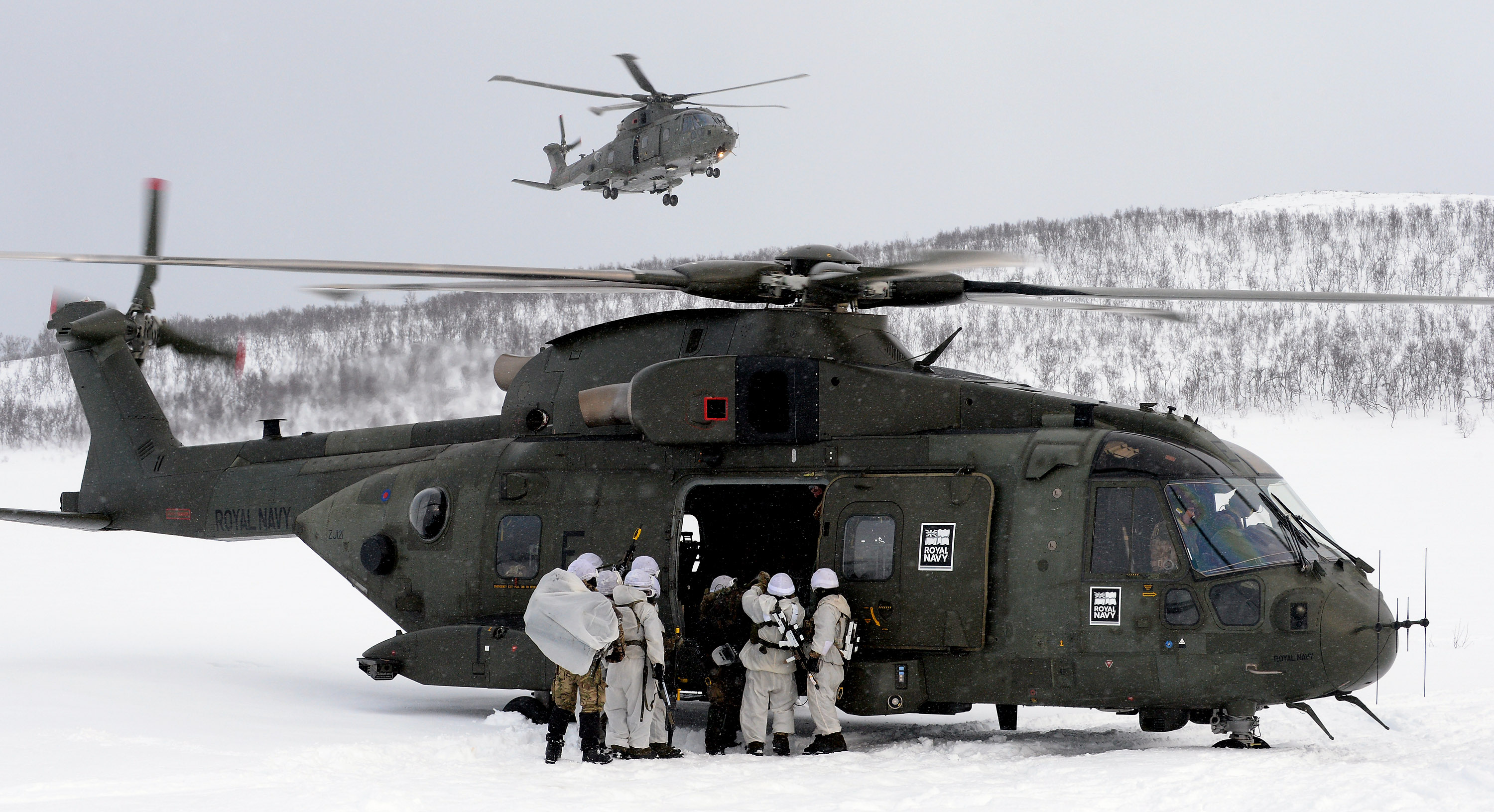 Two Commando Helicopter Force Merlin Mk3 helicopters from 846 Naval Air Squadron on exercise with Royal Marine Commando's from Whisky Company 45 Commando near Harstad northern Norway.Royal Navy personnel from Commando Helicopter Force (CHF) 846 Naval Air Squadron normally based at Royal Air Force Benson in Oxfordshire conducting Arctic flying and ground training in Norway.Situated some 200 miles inside the Arctic Circle at the Joint Helicopter Command (JHC) training facility near Bardufoss, northern Norway, the JHC base known as 'Clockwork' provides survival and operational training and support facilities to enable aviation capable units arms to survive, operate and fight in extreme cold weather environments.JHC 'Clockwork' has provided Commando Helicopter Force (CHF) with an Arctic base for over 40 years the training provided by the facility is as relevant today as it has always been. It enables CHF to prepare for future operations and is fundamental to the delivery of littoral manoeuvre for the Royal Navy given the geography and excellent facilities that exist in the local area.Merlin Mk3 is a new aircraft type for the Commando Helicopter Force (CHF). It will advance capability for the primary customer, The Royal Marines.To take on the demanding Commando Role (from ship to shore operations) the current Merlin Mk3 fleet will undergo an upgrade package through an interim model. It will then move towards the advanced Merlin Mk4. This will further increase the capability of this proven battlefield helicopter.